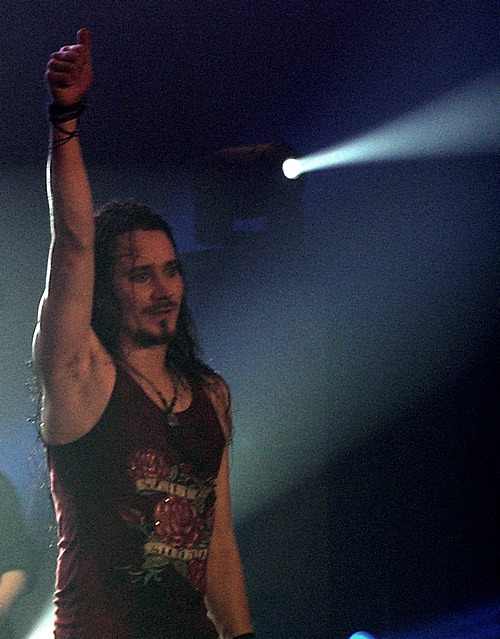 Nightwish live in Zagreb, Croatia